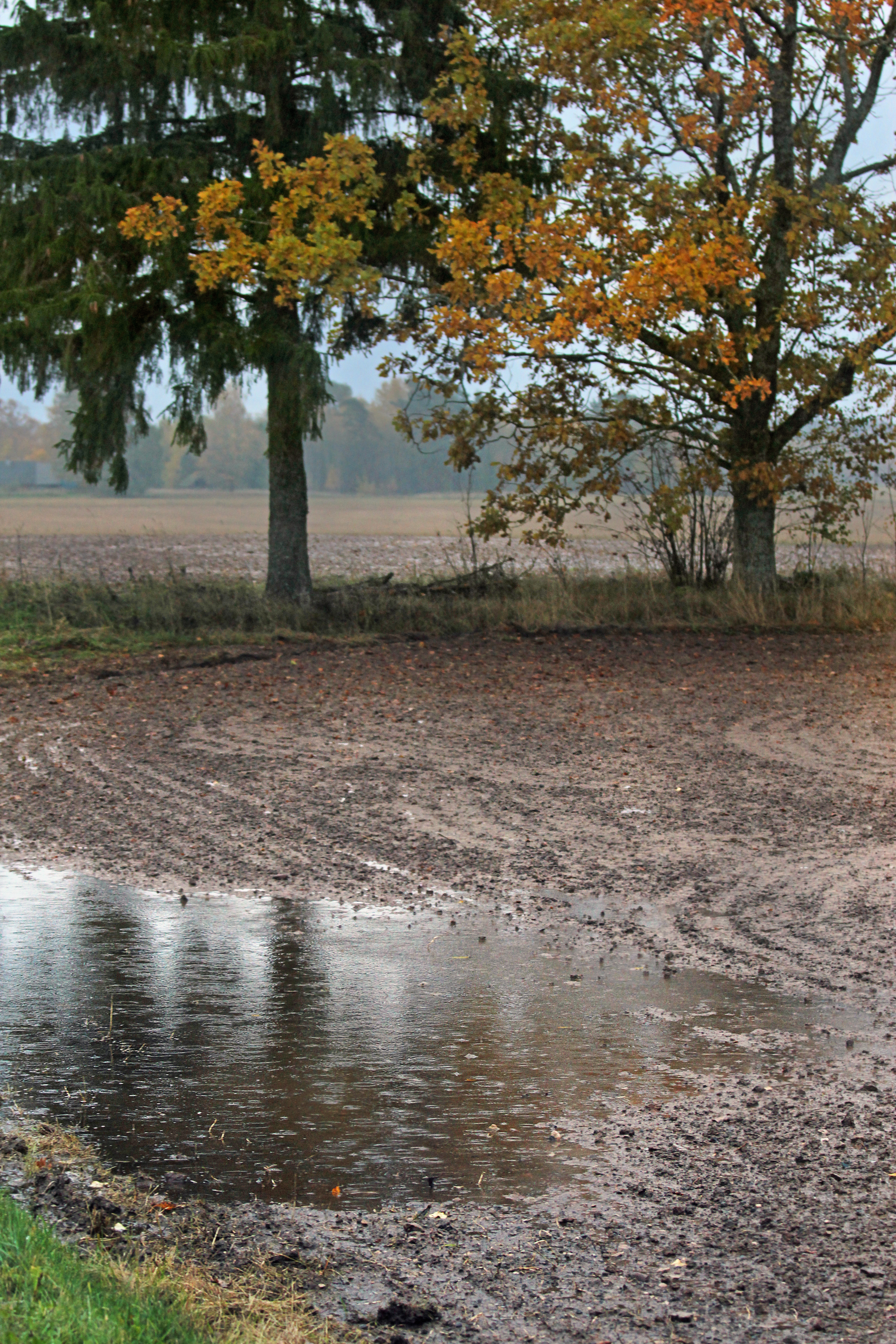 Rain in the field.Southern Estonia